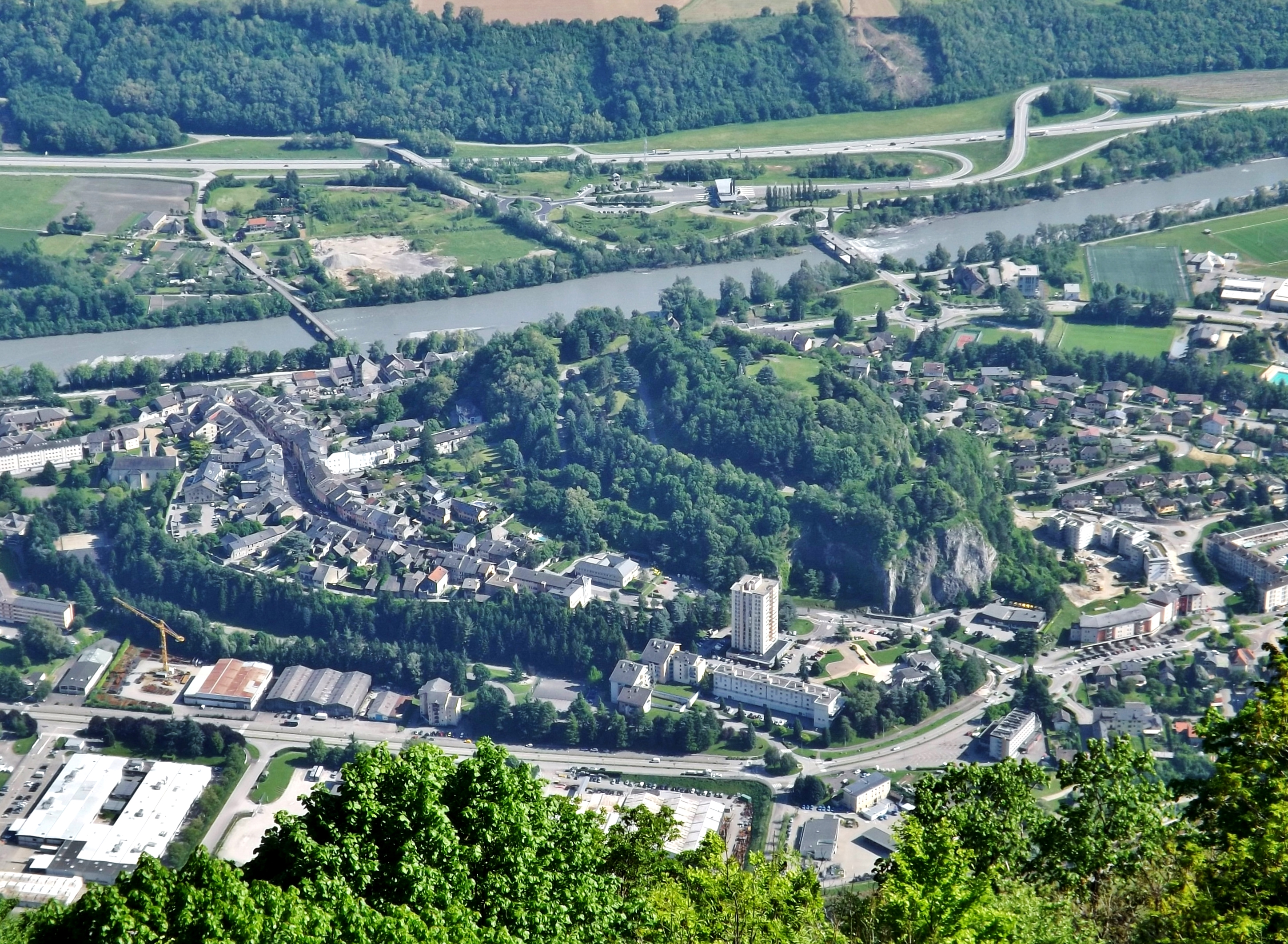 Aerian sight, from the Roche du Guet mount in the Bauges mountain range, of the French town of Montmélian and river Isère, near Chambéry in Savoie.